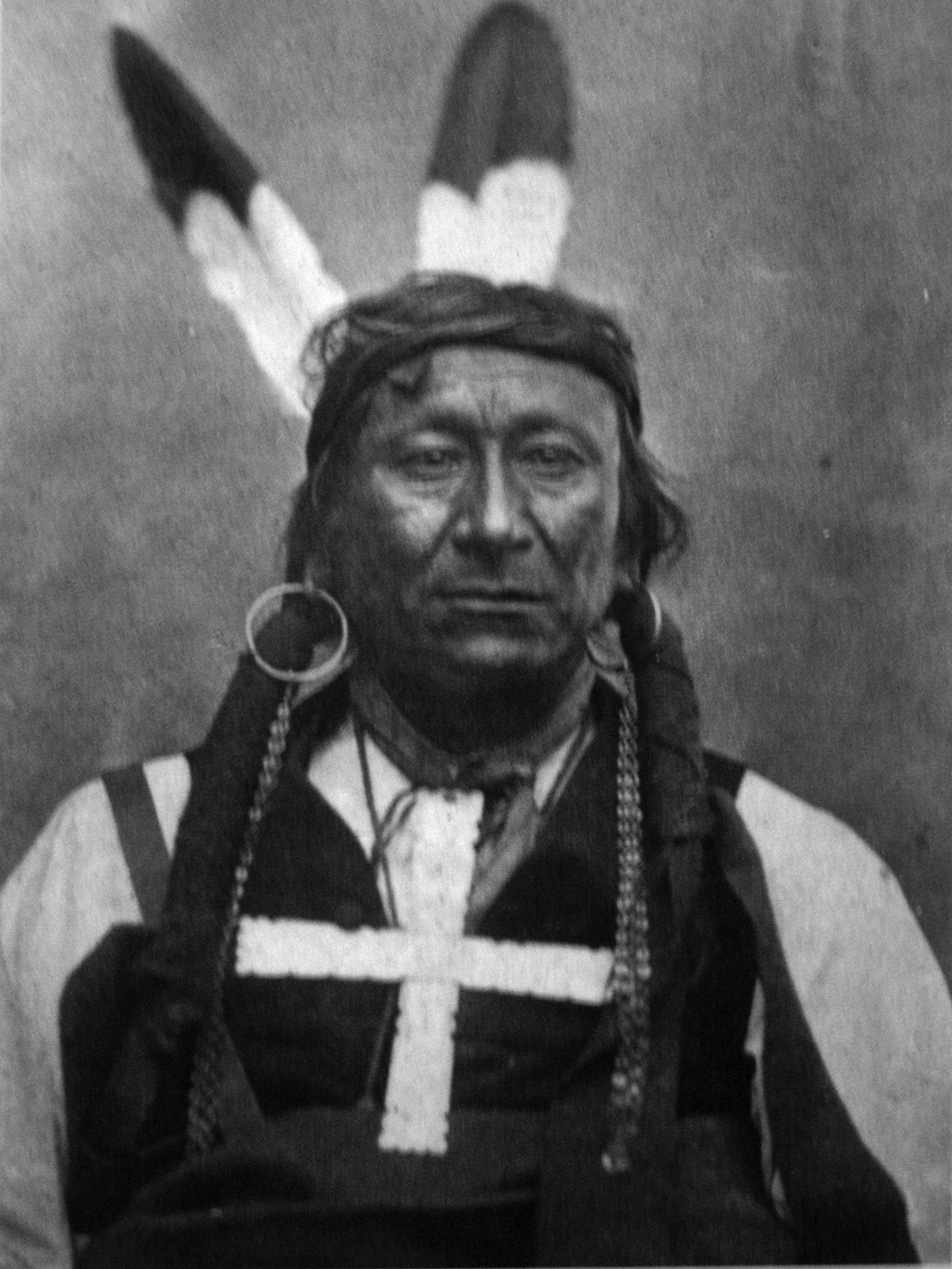 Chief Young Man Afraid of His Horses (1830-1900, Lakota-name Tȟašúŋke Kȟokípȟapi); Oglala Lakota Leader, ca. 1890